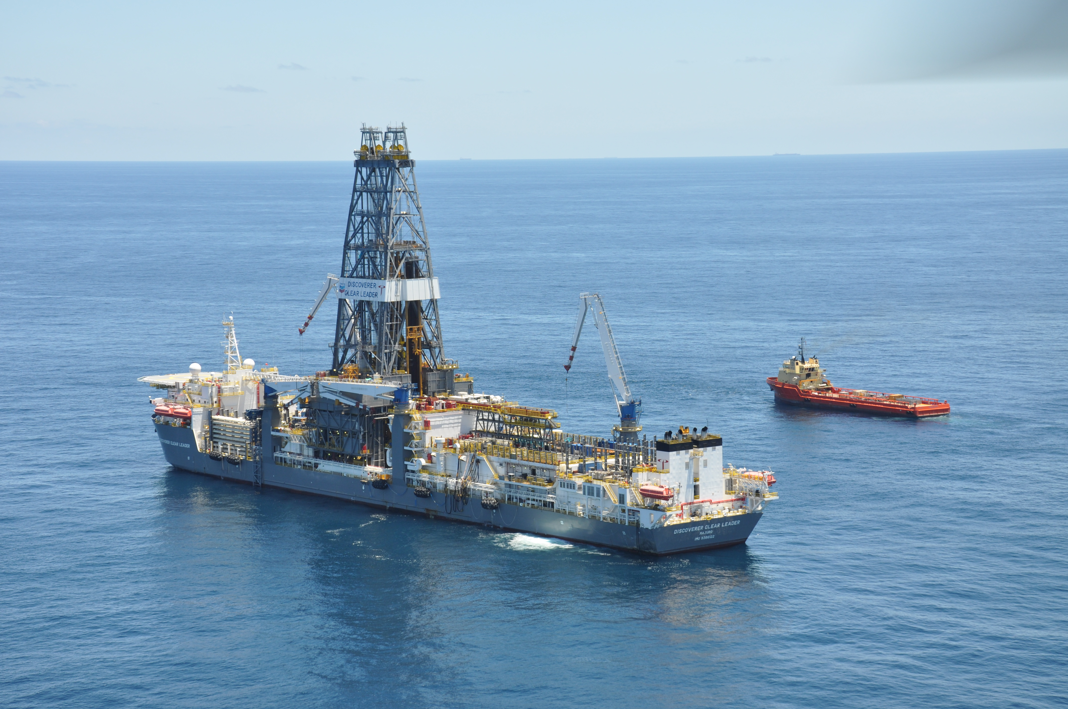 The Transocean drill vessel, Discoverer Clear Leader, prepares for drilling operations for the Deepwater Horizon oil response in the Gulf of Mexico, July 9, 2010. The Discoverer Clear Leader, an 835-foot ultra-deepwater drilling rig, can recover more than 15,000 barrels of oil and 30 million cubic feet of natural gas per day with the help of the supply vessel Celena Chouest that provides drilling mud and other material